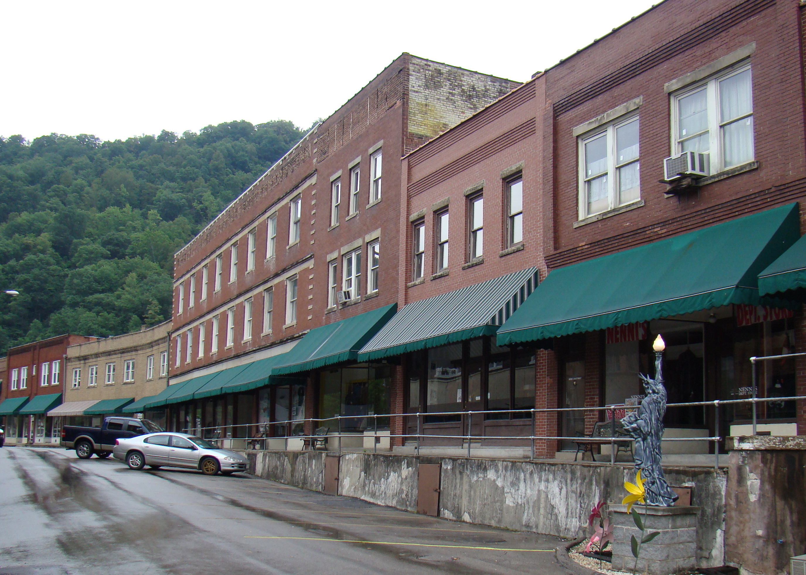 Matewan Historic District, a National Historic Landmark, was the site of the Battle of Matewan in May 1920 during a coal miners' strike.